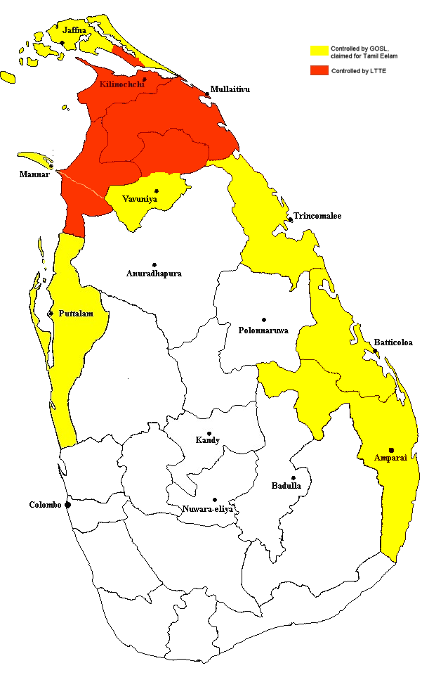 This image shows the extent of territory that is controlled by the LTTE and the Sri Lankan Government as of July 2007, as against the portions which the LTTE claims. This image is an updated version of Image:Extent of territorial control in sri lanka.png, edited to reflect the fact that eastern Sri Lanka is now wholly under government control[1]. The source for the information contained in the original image was an European Union document, (reference no. ECHO/-SA/BUD/2005/02000, available online at This image was made by Arvind. The original image was made by User:Ponnampalam.